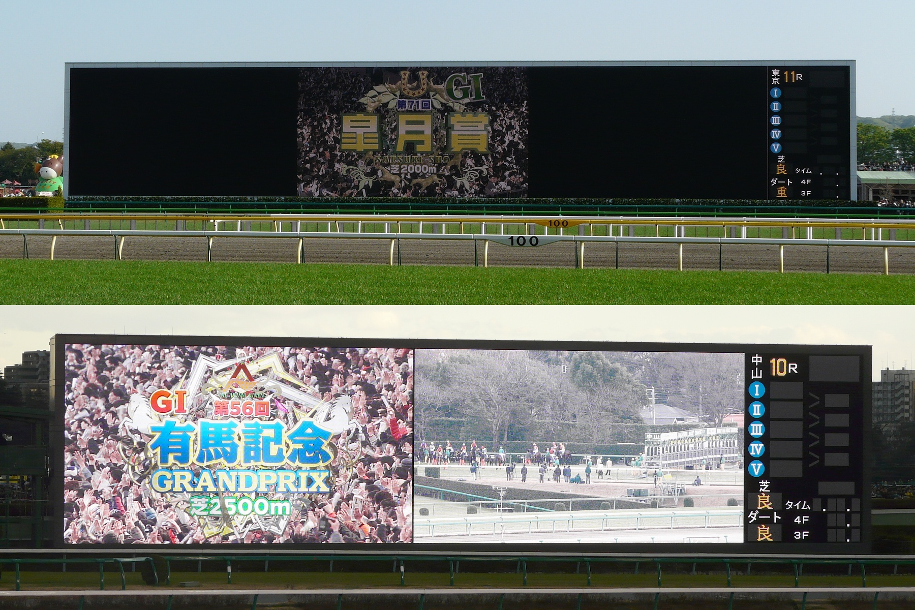 Odds-Board(JRA)